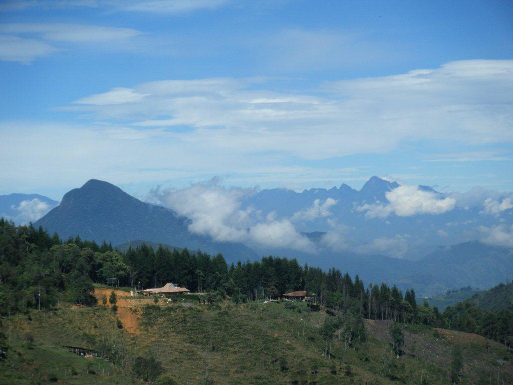 fotos por: Machacho